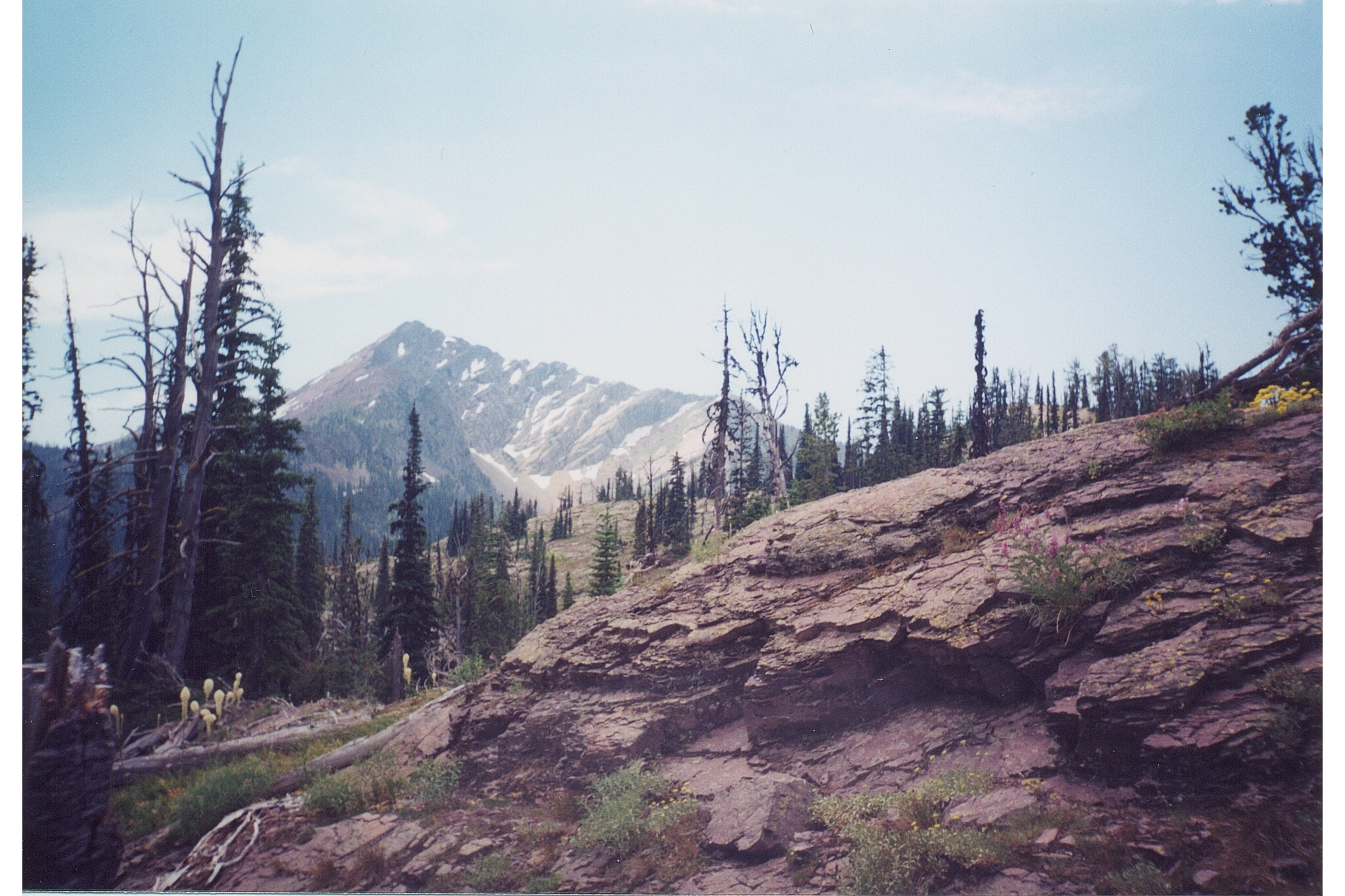 Carmine Peak in the Swan Range on the western border of the Bob Marshall Wilderness.